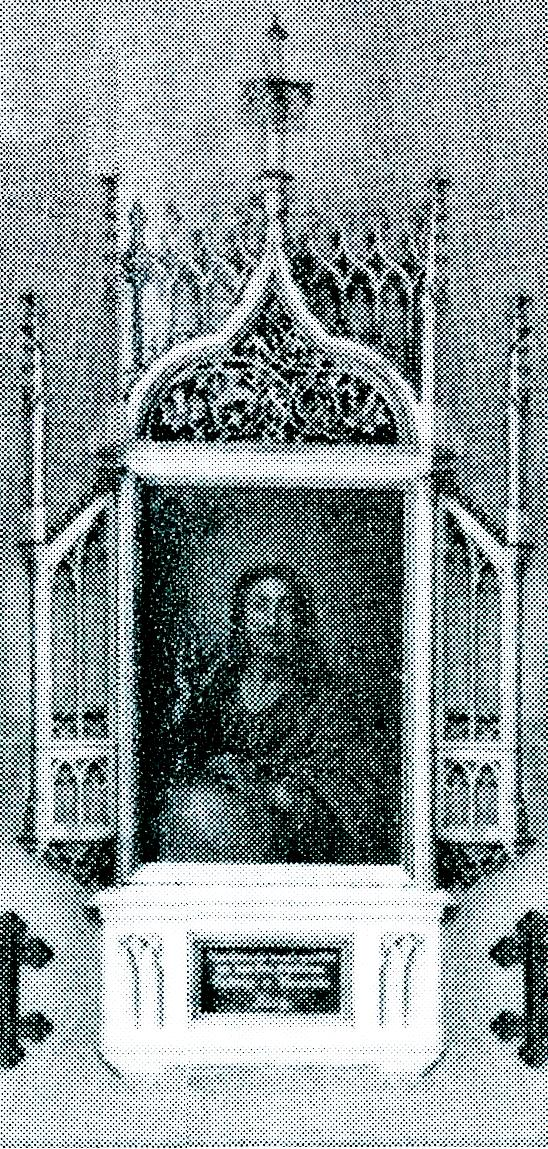 Heilbronn Nikolaikirche innen vor 1899, Gemälde „Christus Salvator“, 1879, Stifter Eheleute Ludwig und Heinrike Jörg.jpg